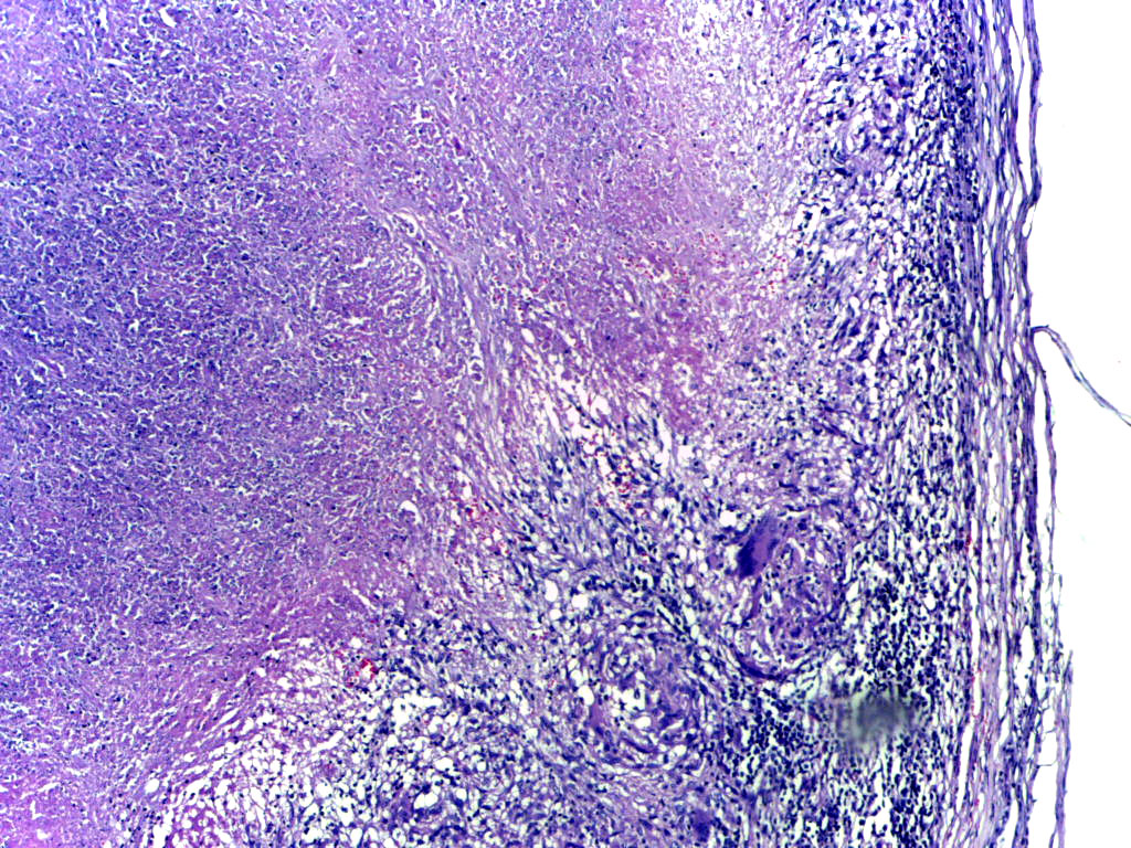 General Pathology: Granulomatous lesions: showing caseous necrosis surrounded by epithelioid cells and giant cells with a mantle of lymphocytes